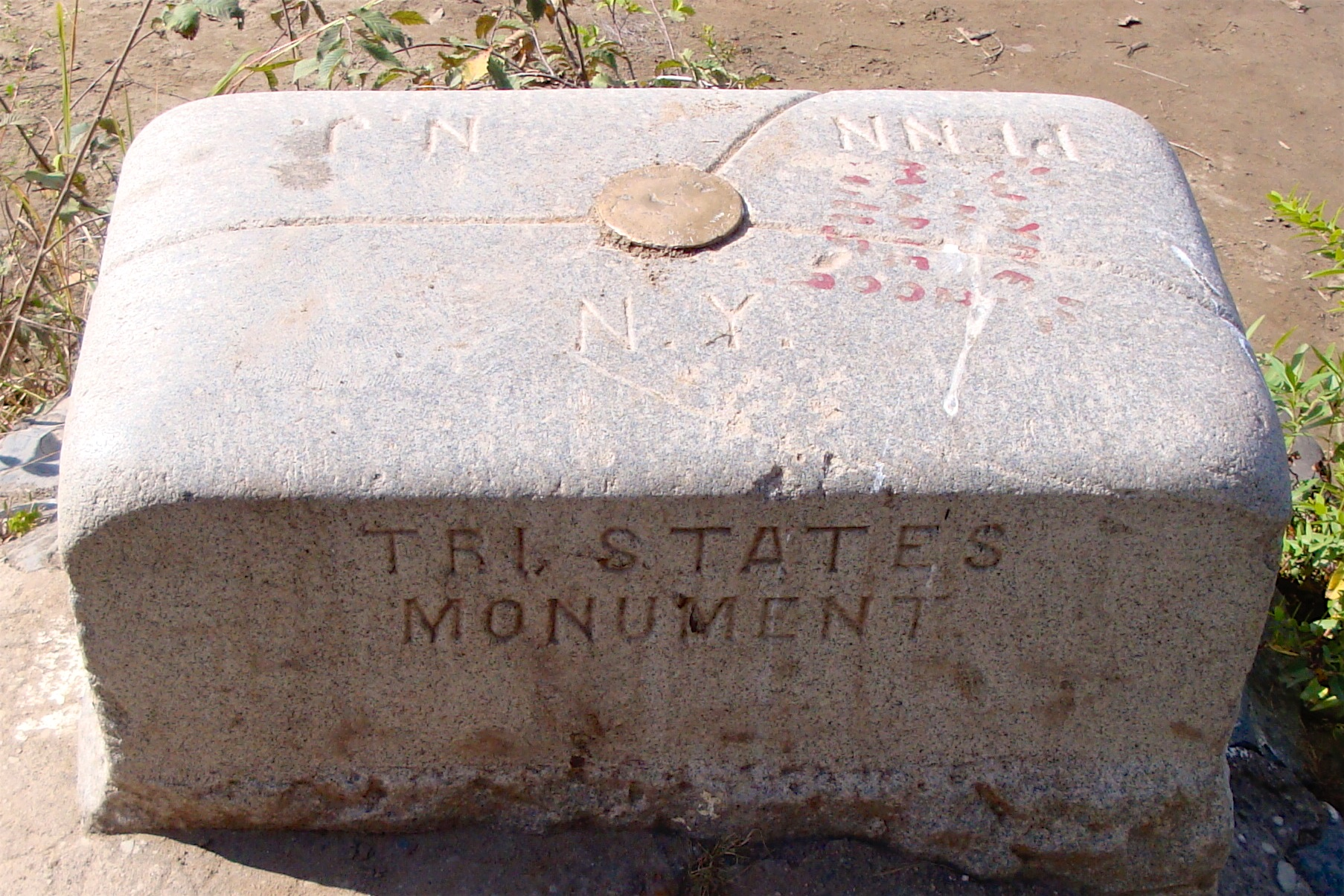 Detailed view of the Tri-States Monument marking the boundary of the states of New Jersey, New York, and Pennsylvania.